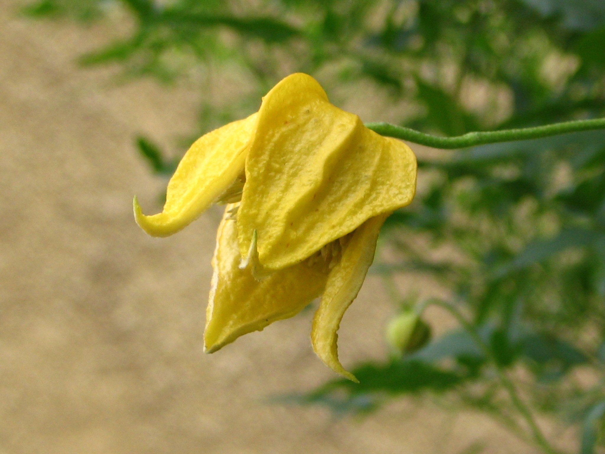 Clematis cultivar from Tangutica Group, from plwiki uploaded by Wikipedysta:Turtlezzz under GFDL.